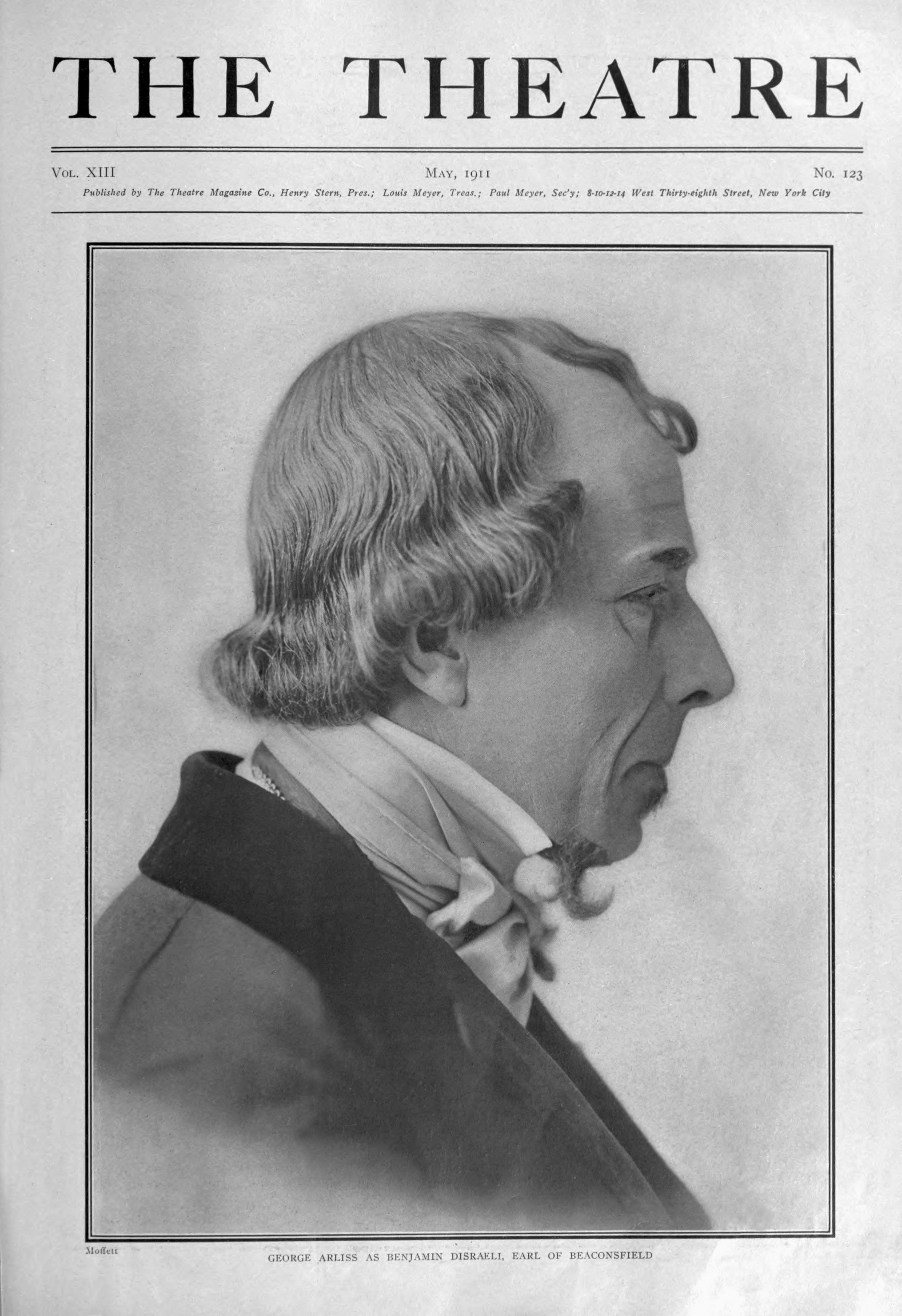 George Arliss as Benjamin Disraeli Earl of Beaconsfield, on the title page of Theatre magazine, May 1911.